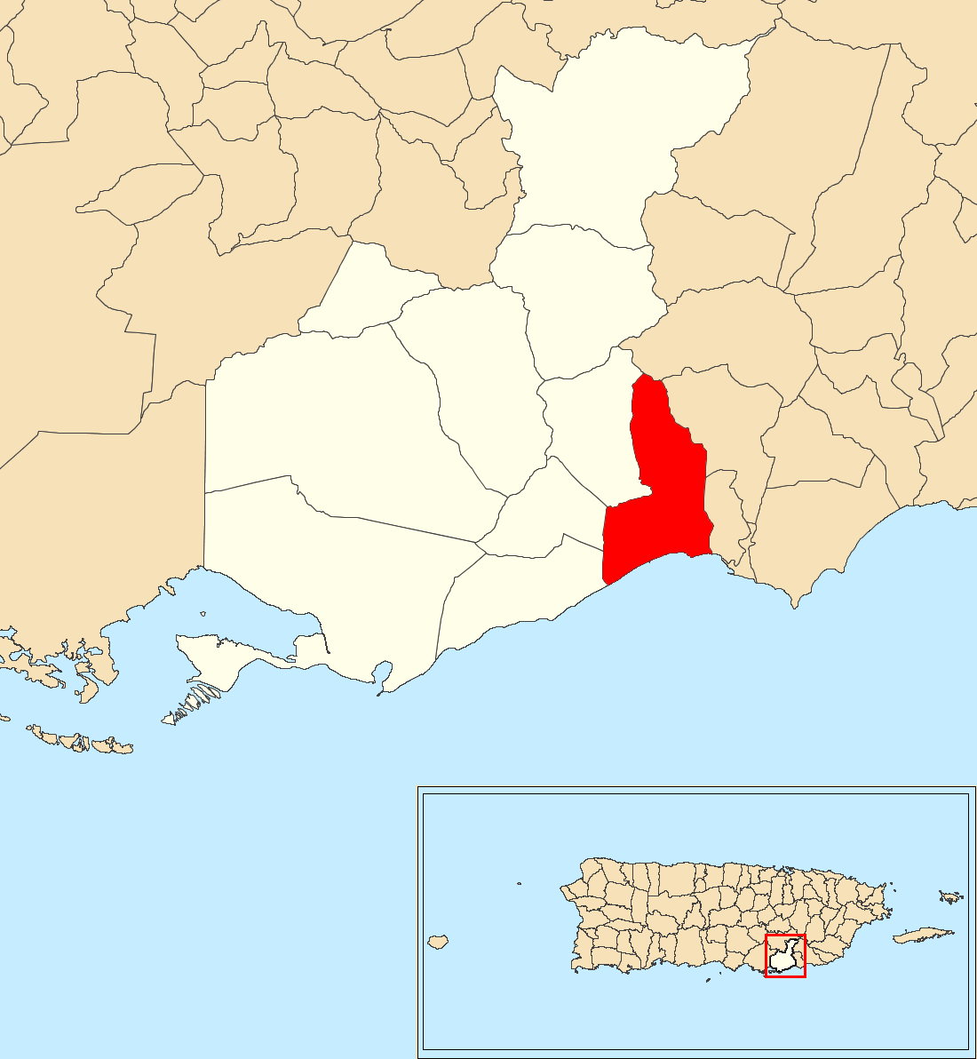 Algarrobo, Guayama, Puerto Rico locator map